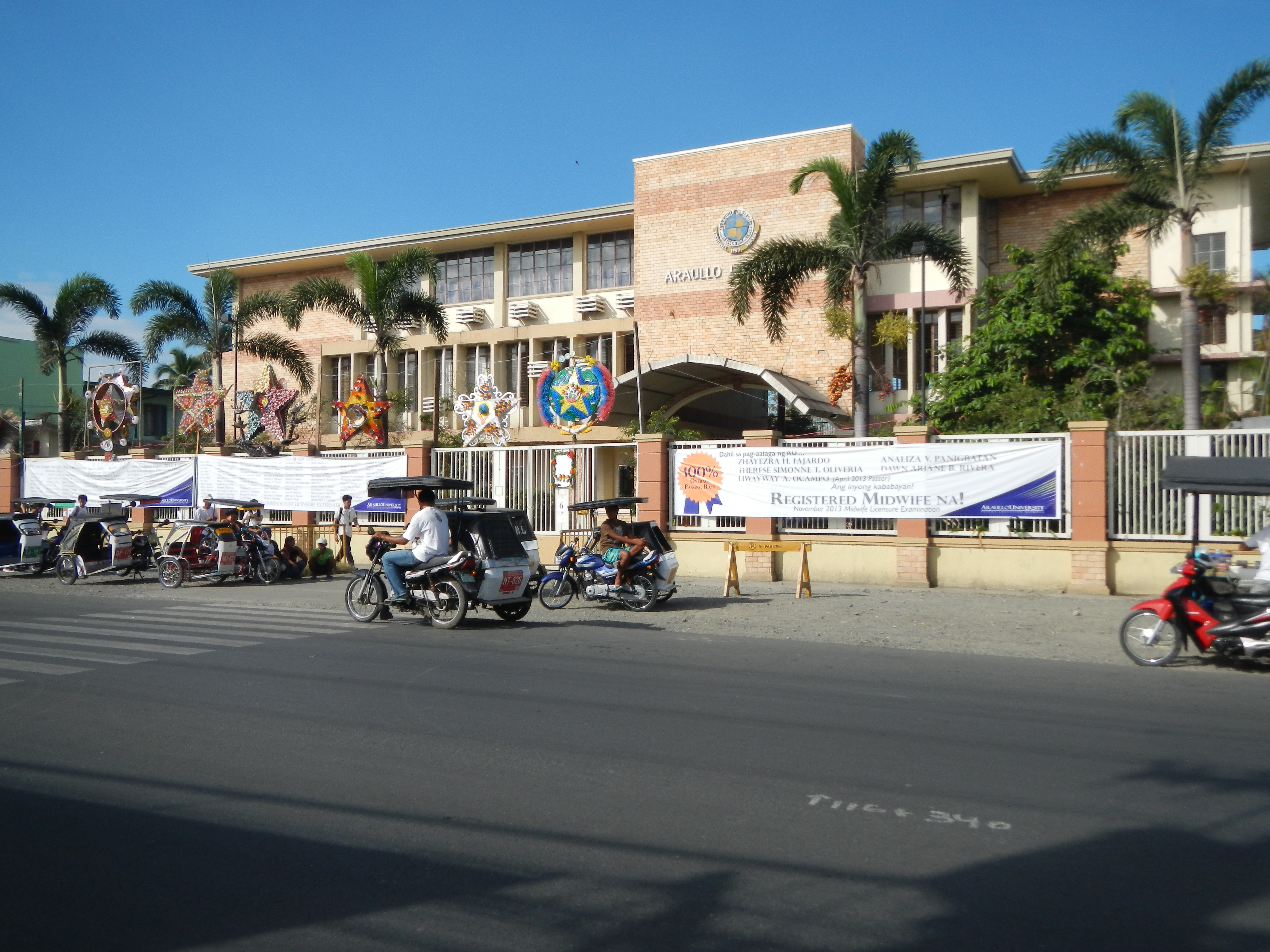 Upload Wizard Panorama photos of -- (general description of landmarks, town, Church, going to dark, sunset conditions) - the Pan-Philippine Highway or Daang Maharlika Highway passing along the scenery and Town buildings, establishments - a) Araullo University [1] [2] Chito B. Salazar Cabanatuan City, Nueva Ecija, Philippines b) Dalin Bus Line Dalin Liner Inc. in the List of bus companies of the Philippines[3] c) Friendship Supermarket, Inc. (FSi), beside 7-Eleven[4] Convenience store d) and scenery of Carranglan, Nueva Ecija[5].